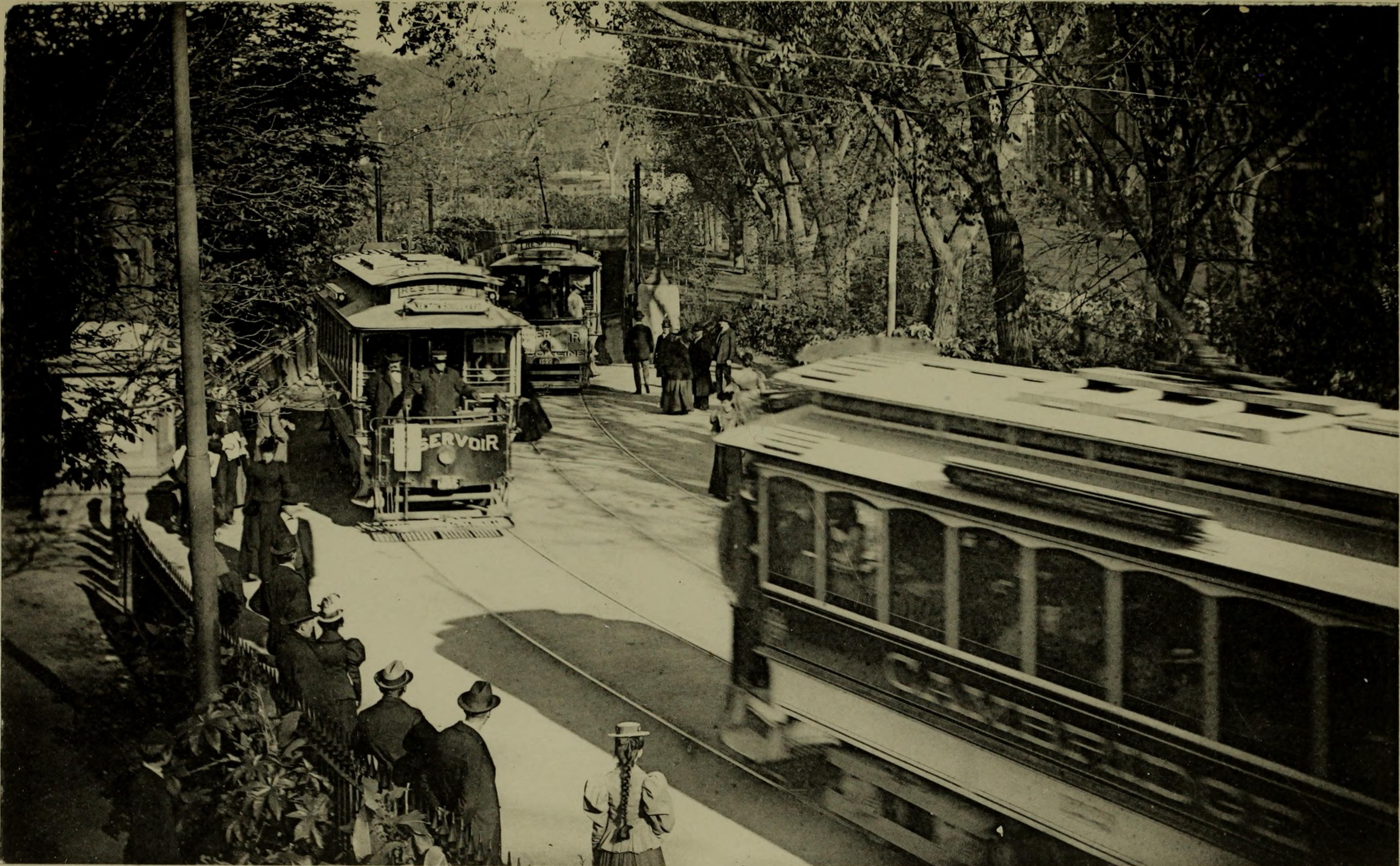 Cambridge and Riverside cars at the former Public Garden portalOriginal caption: STOPPING-PLACE FOR CARS AT TOP OF INCLINE, PUBLIC GARDEN